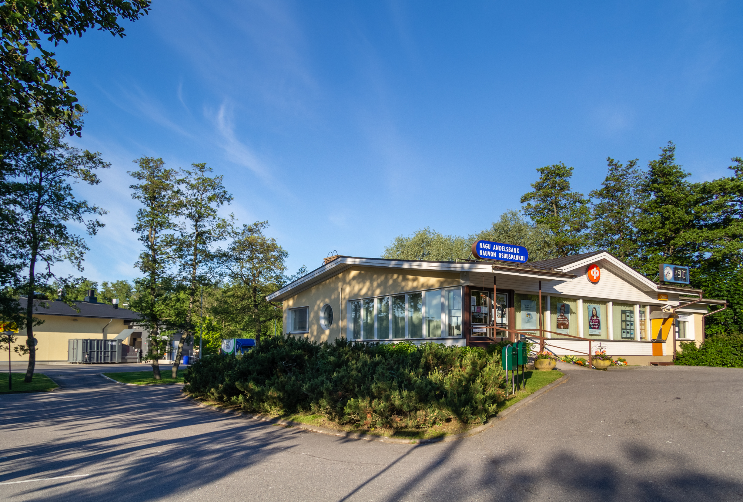 A bank in Kyrkbacken, Nagu